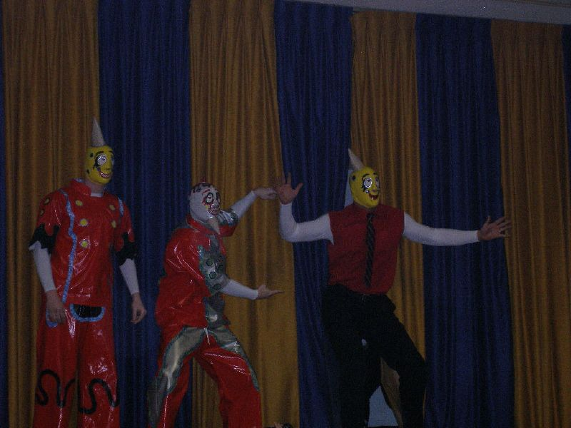 Professional wrestlers El Hijo del Ice Cream, Ice Cream, Jr. and Very Mysterious Ice Cream (Claudio Castagnoli) at a Chikara show